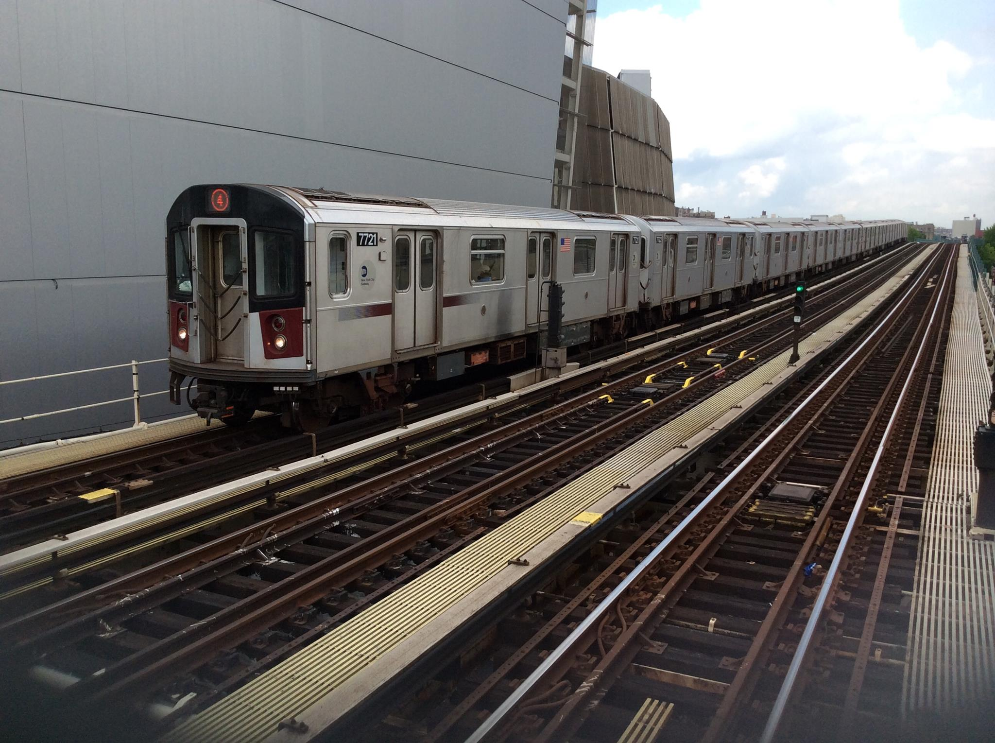 Southbound 4 train enters 161 St.